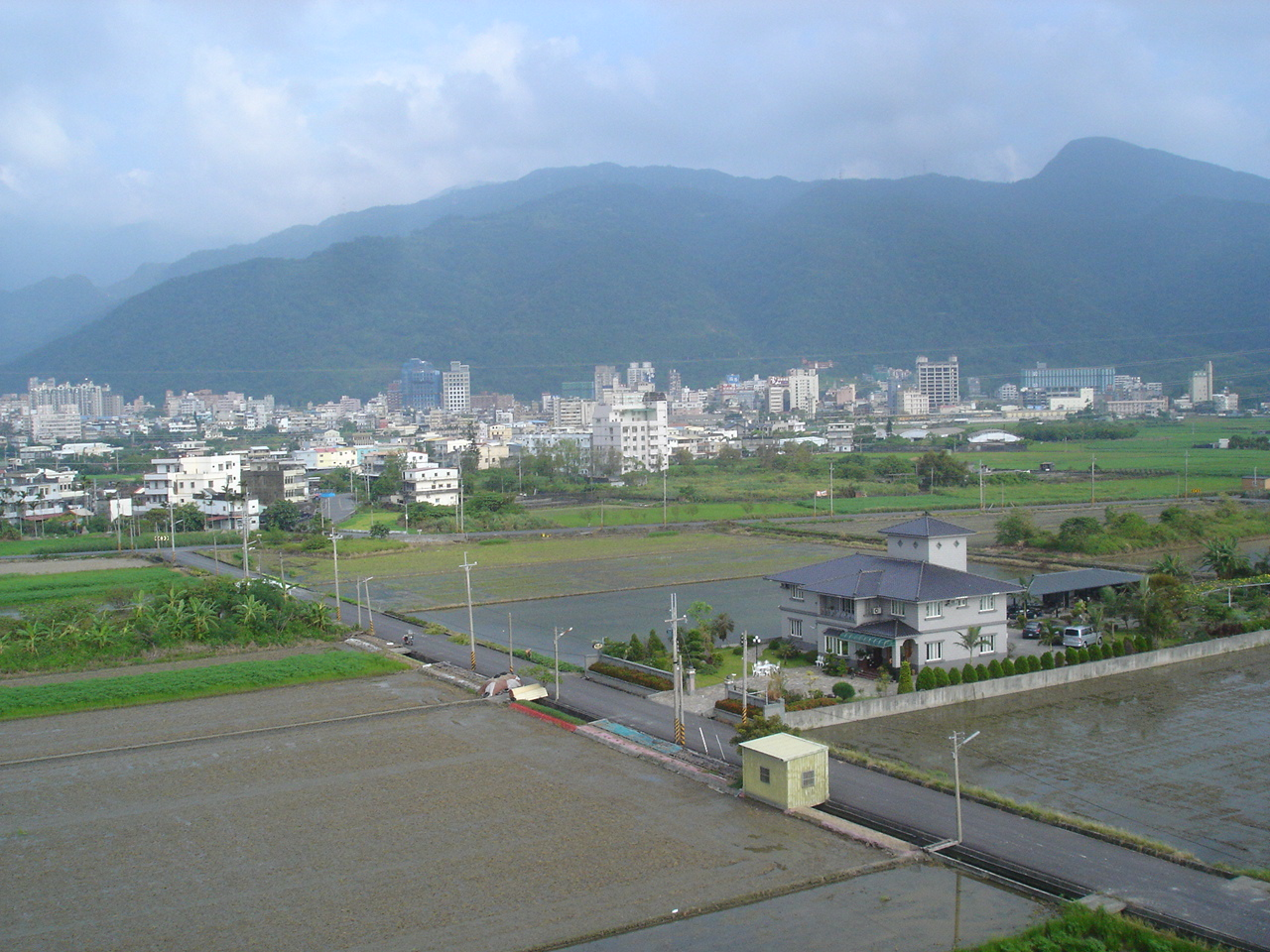 Jiaosi, Yilan County Taiwan